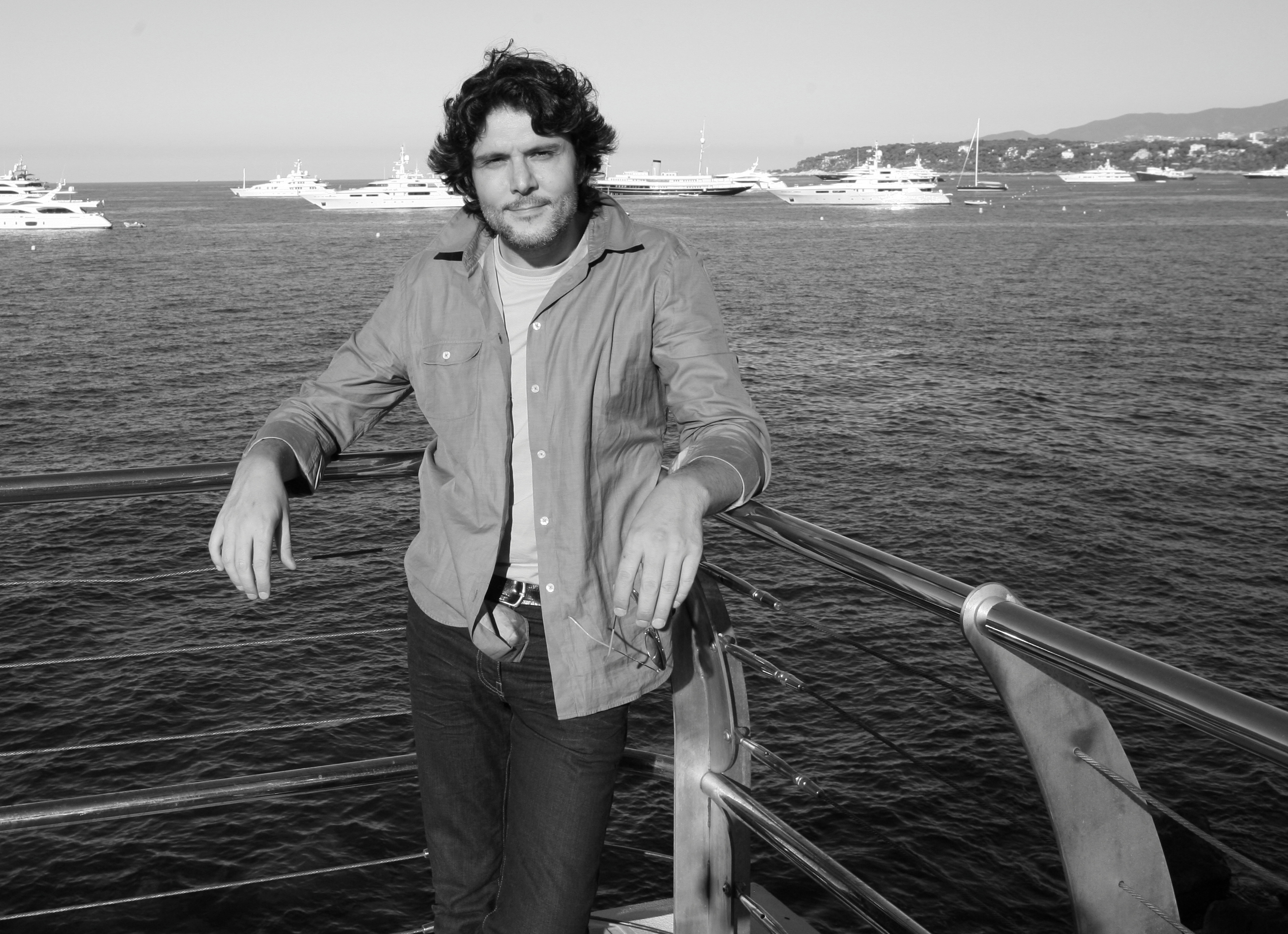 Private Picture of Massimo Giordano